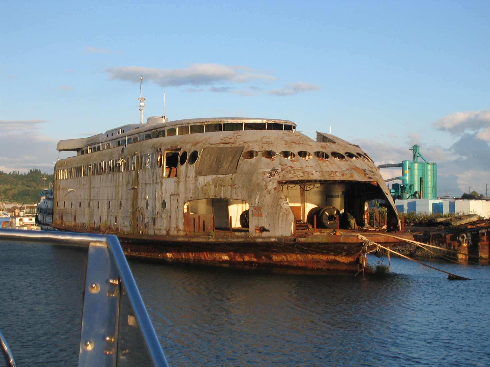 Wreck of the old ferry-boat Kalakala at Tacoma, WA, USA